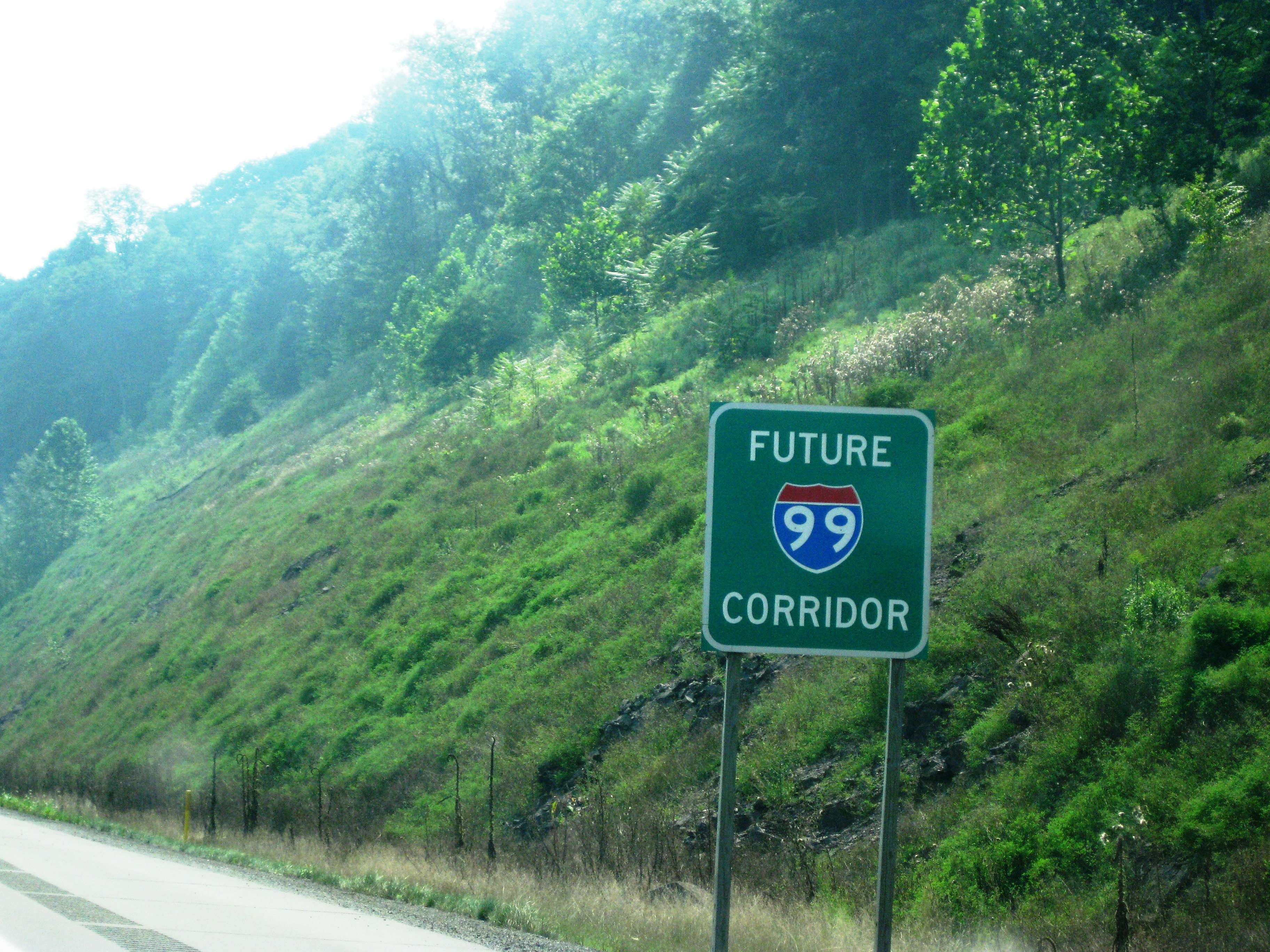 Photograph of "Future Interstate 99 Corridor" sign on southbound U.S. Route 15, north of Williamsport, Pennsylvania, United States.